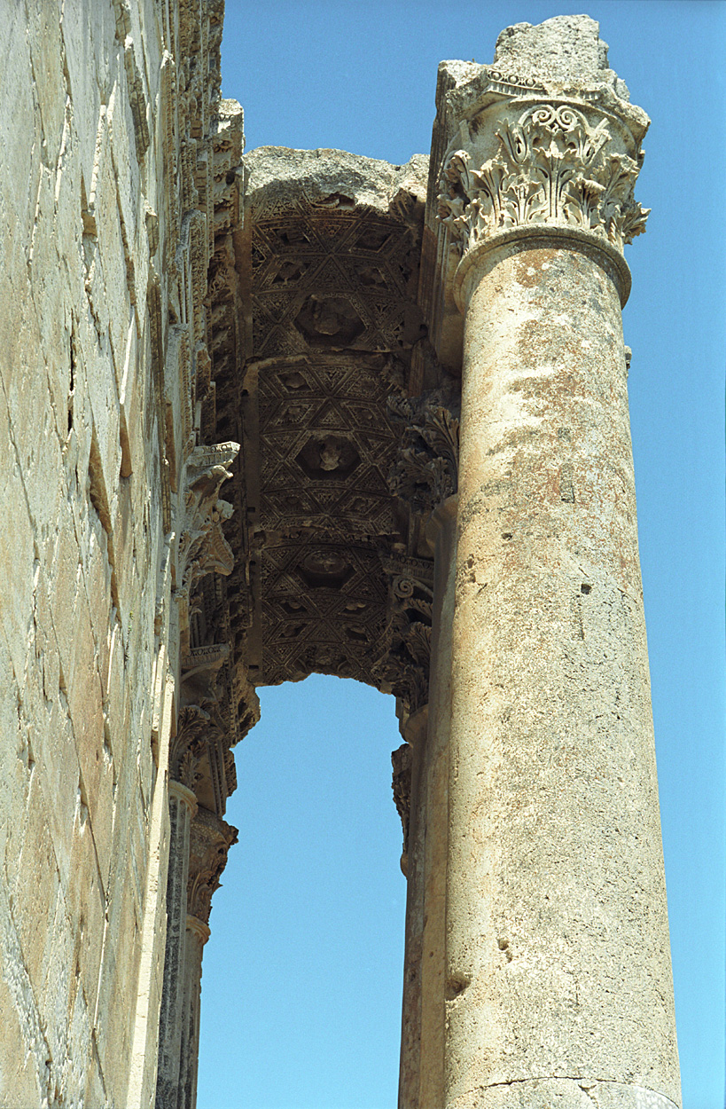 Baalbek, Temple of Bacchus - ornamented ceiling